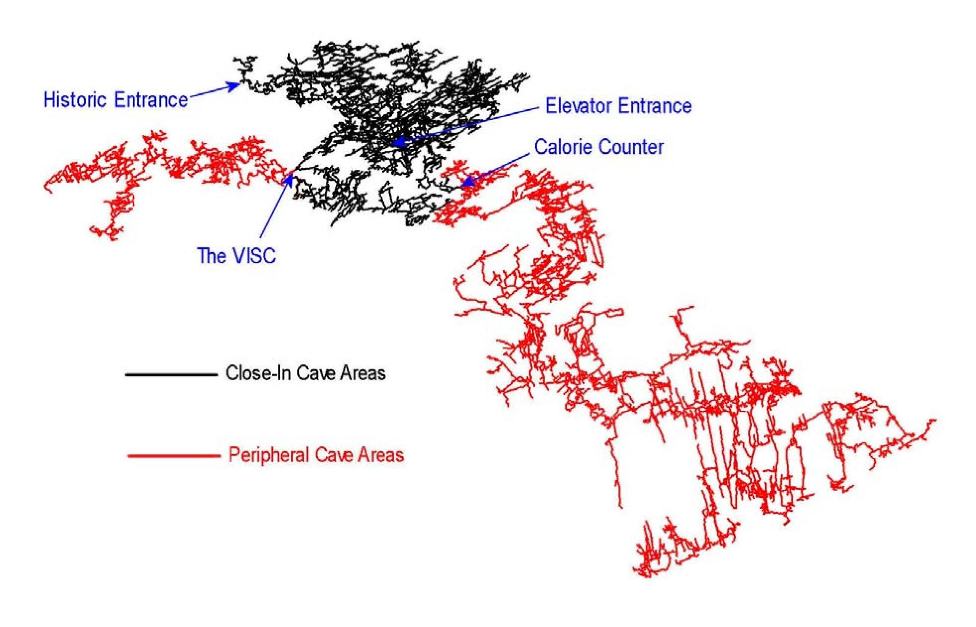 schematic map of Jewel Cave National Monument, South Dakota, USA